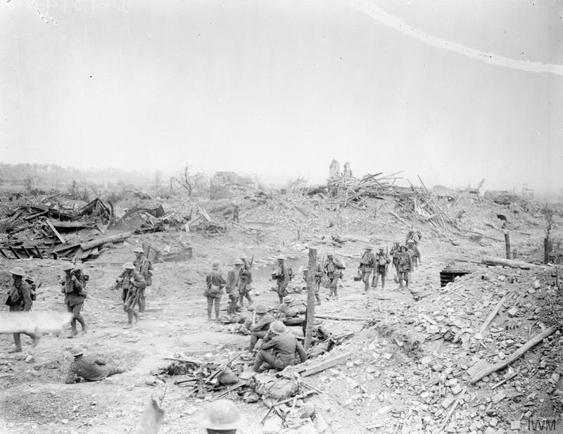 The Battle of Messines, June 1917 Village of Wytschaete captured on 7th June 1917 by the 16th (Irish) and 36th (Ulster) Division. 8 June 1917.